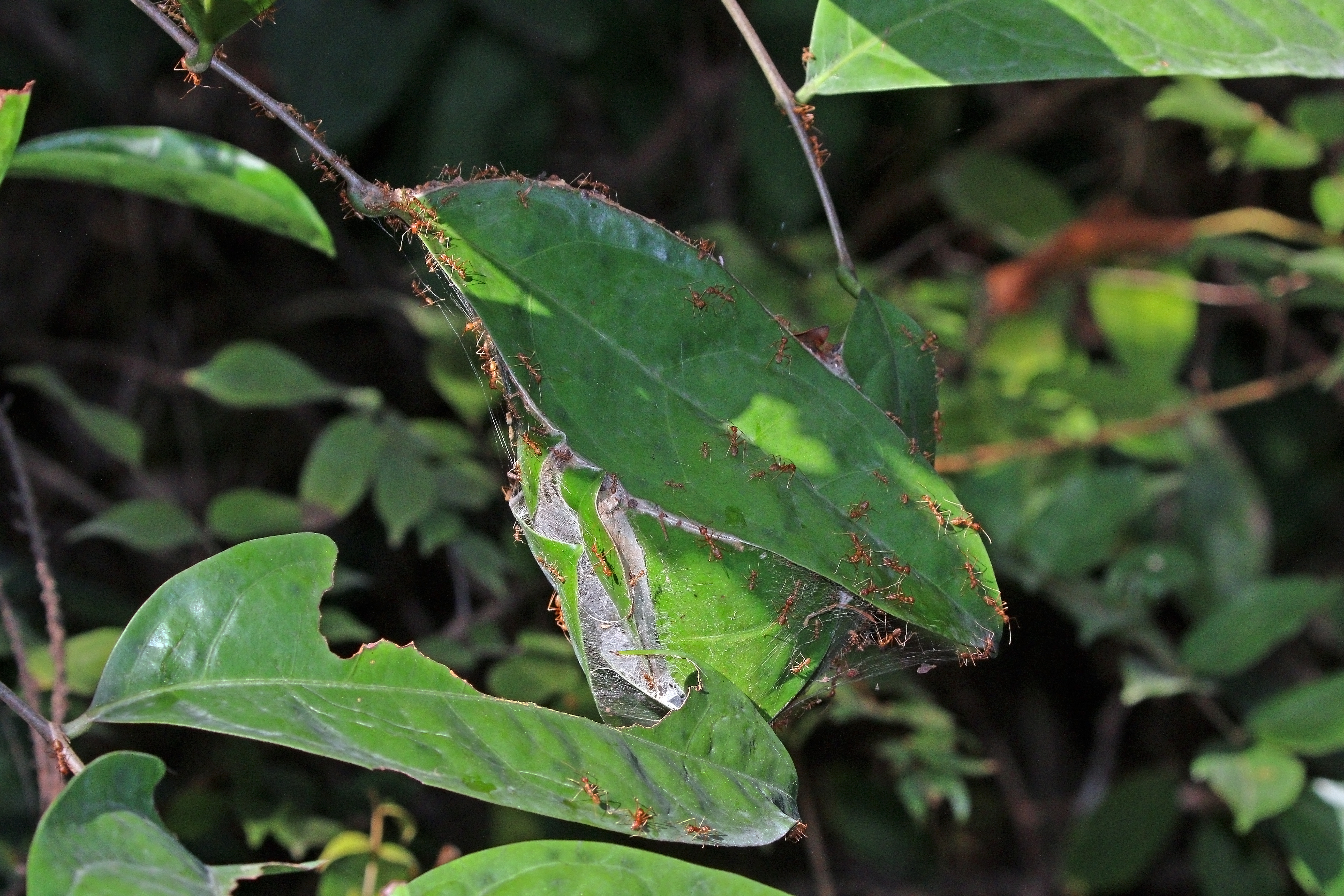 Weaver ant (Oecophylla longinoda) nest, Amansuri Conservation Area, Ghana